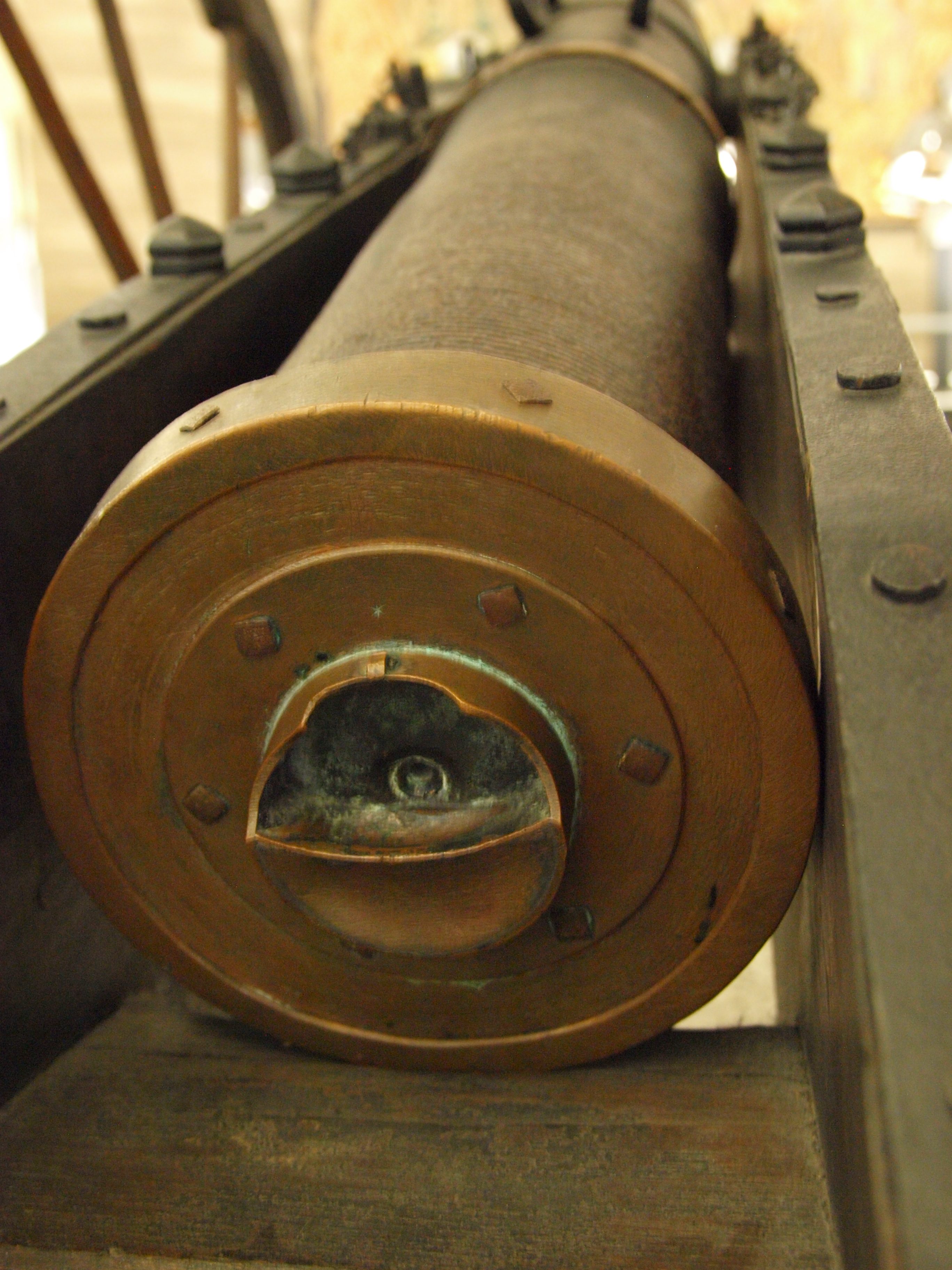 Back side of Leather Canon calibre 37 mm with touch hole and pan. Germanisches Nationalmuseum Nürnberg Inventory Number W 614. Barrel made of copper, ropes, leather and iron. Lafette made of wood and iron.